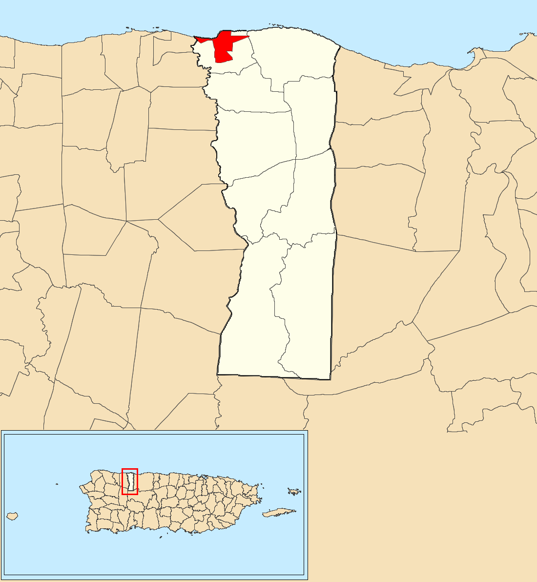 Hatillo barrio-pueblo, Hatillo, Puerto Rico locator map